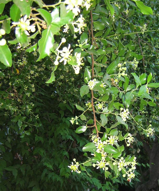 Quillaja saponaria MOLINA, tree of Chilean Matorral